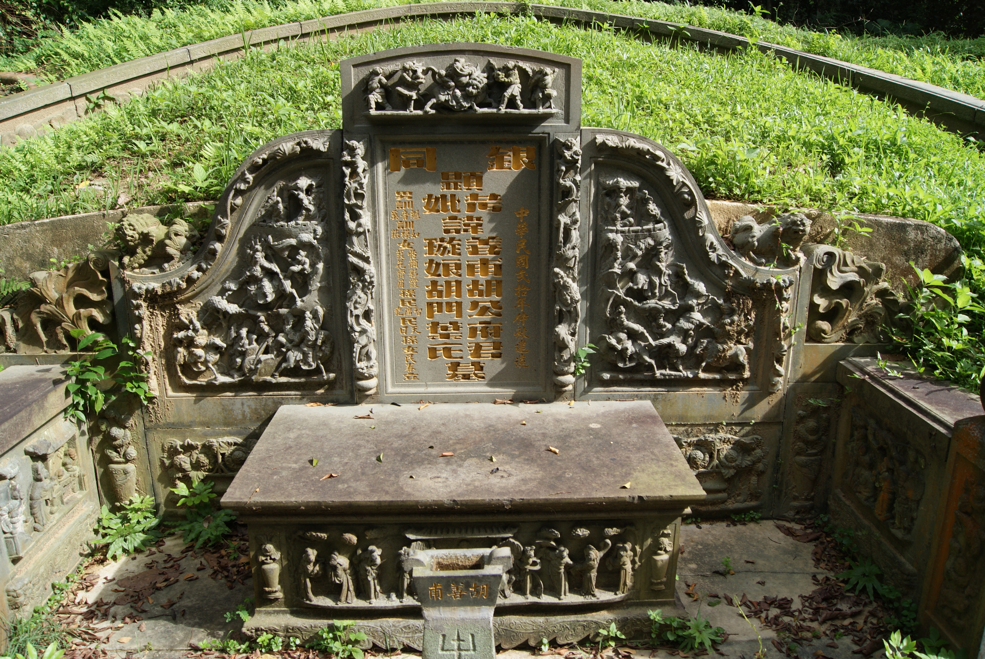 The gravestone of Oh Sian Guan, a merchant, and his wife Yap Suan Neo at Bukit Brown Cemetery, Singapore.